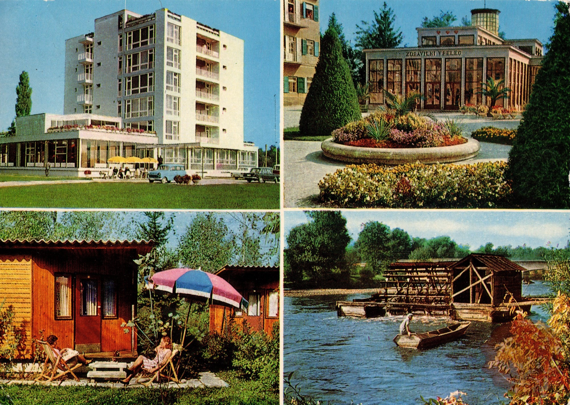 Postcard of Radenci.